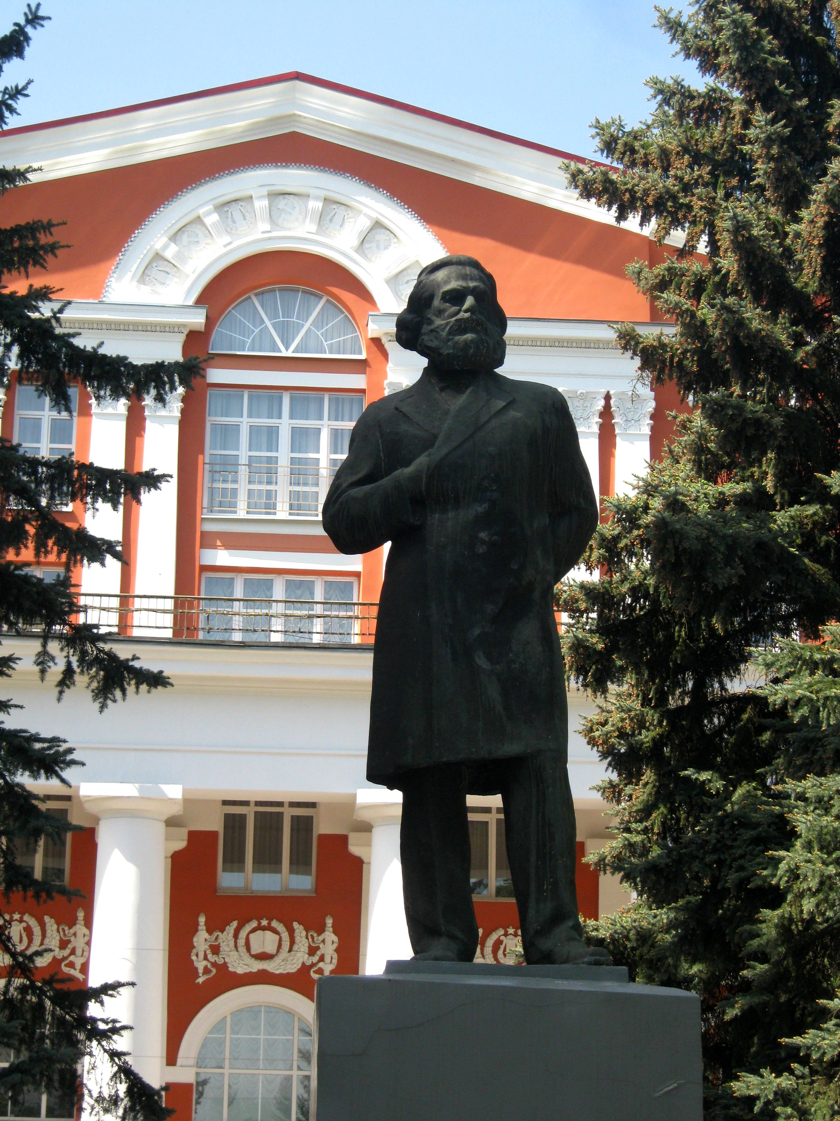 Памятник Карлу Марксу (Электросталь)